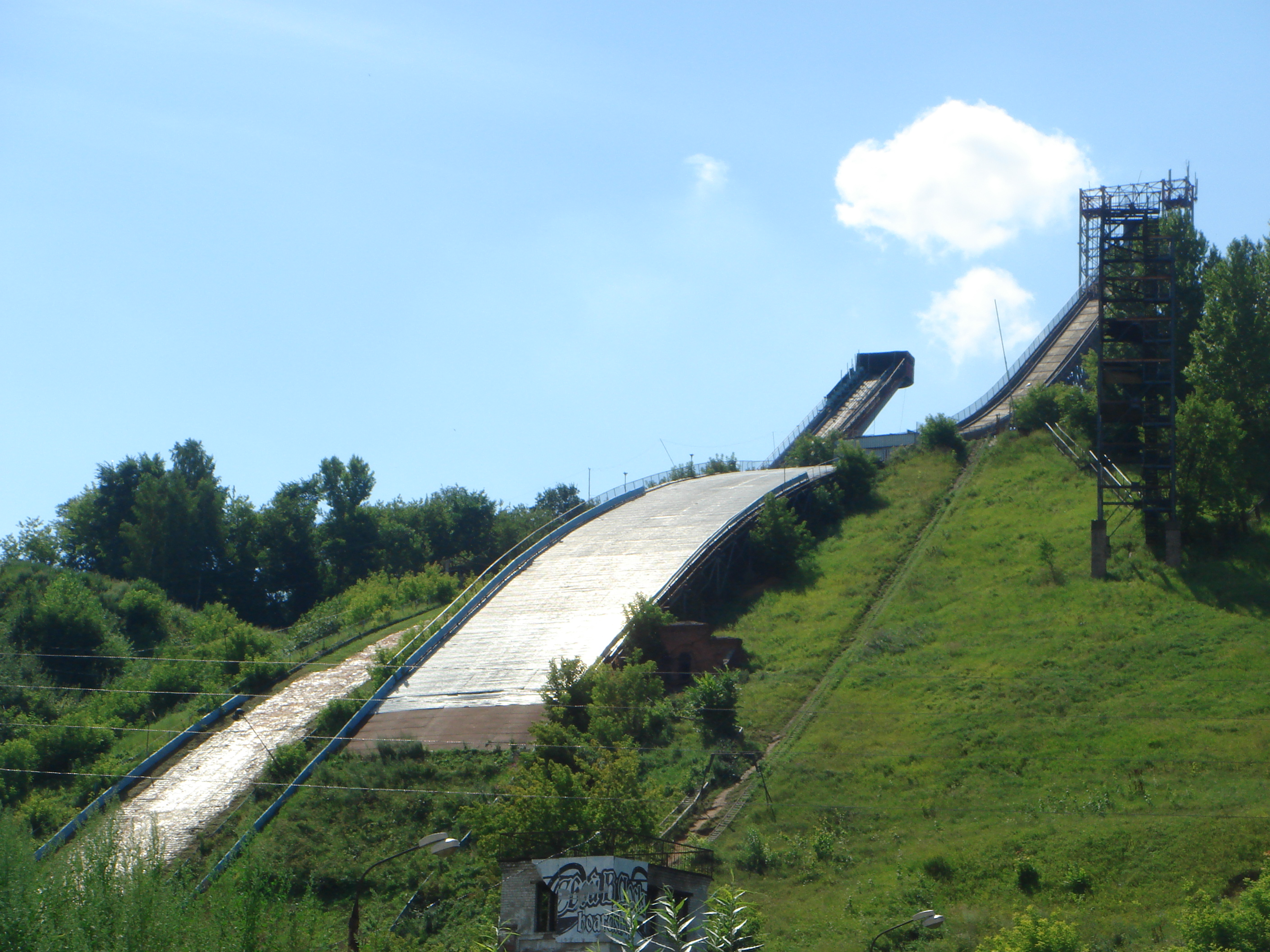 Ski jumping facility on the Volga shore in Nizhny Novgorod, near Sennaya Square